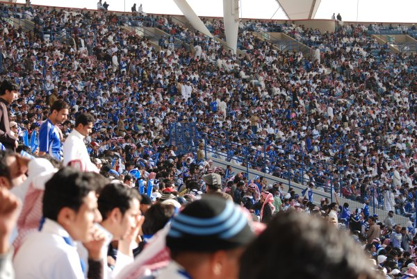 Al-Hilal crowd in king fahd stadium 2010.